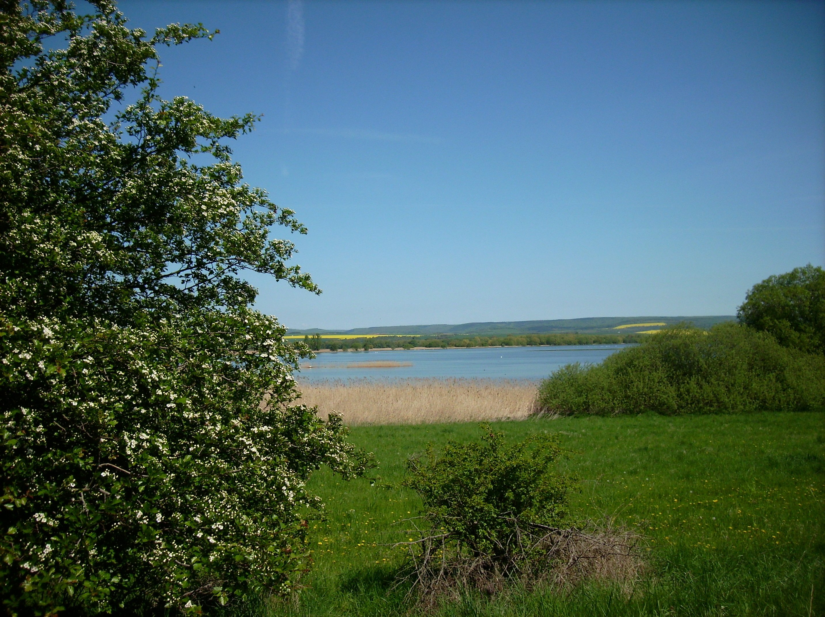 The Kelbra Reservoir on the river Helme in the Mansfeld-Südharz district of Saxony-Anhalt, view from the south-west